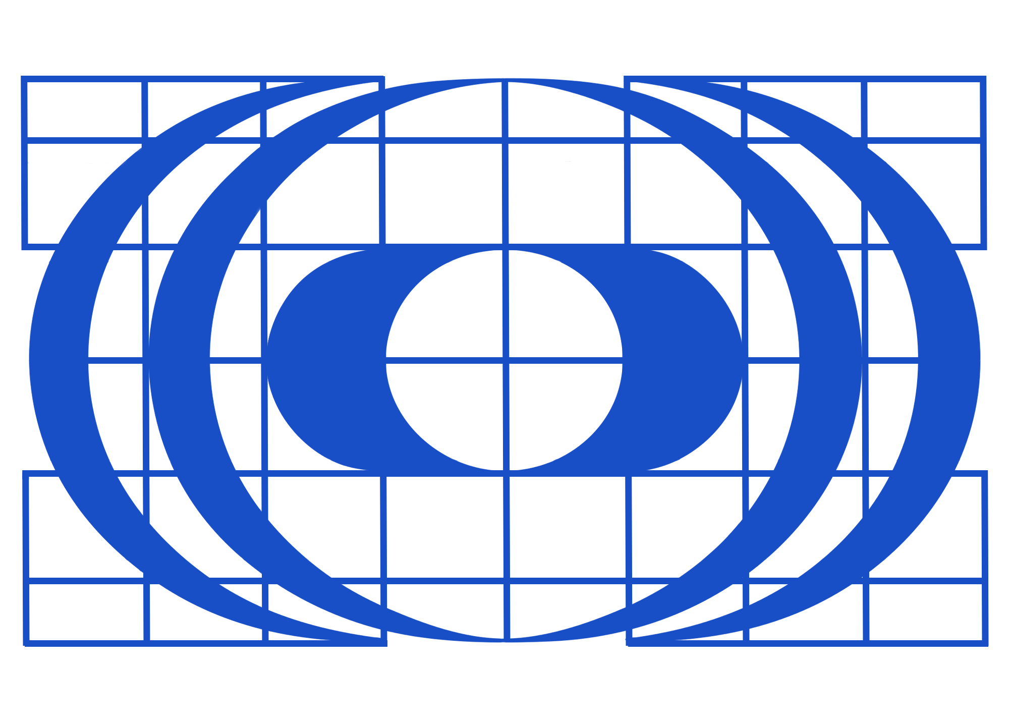 NTV Symbol 1978